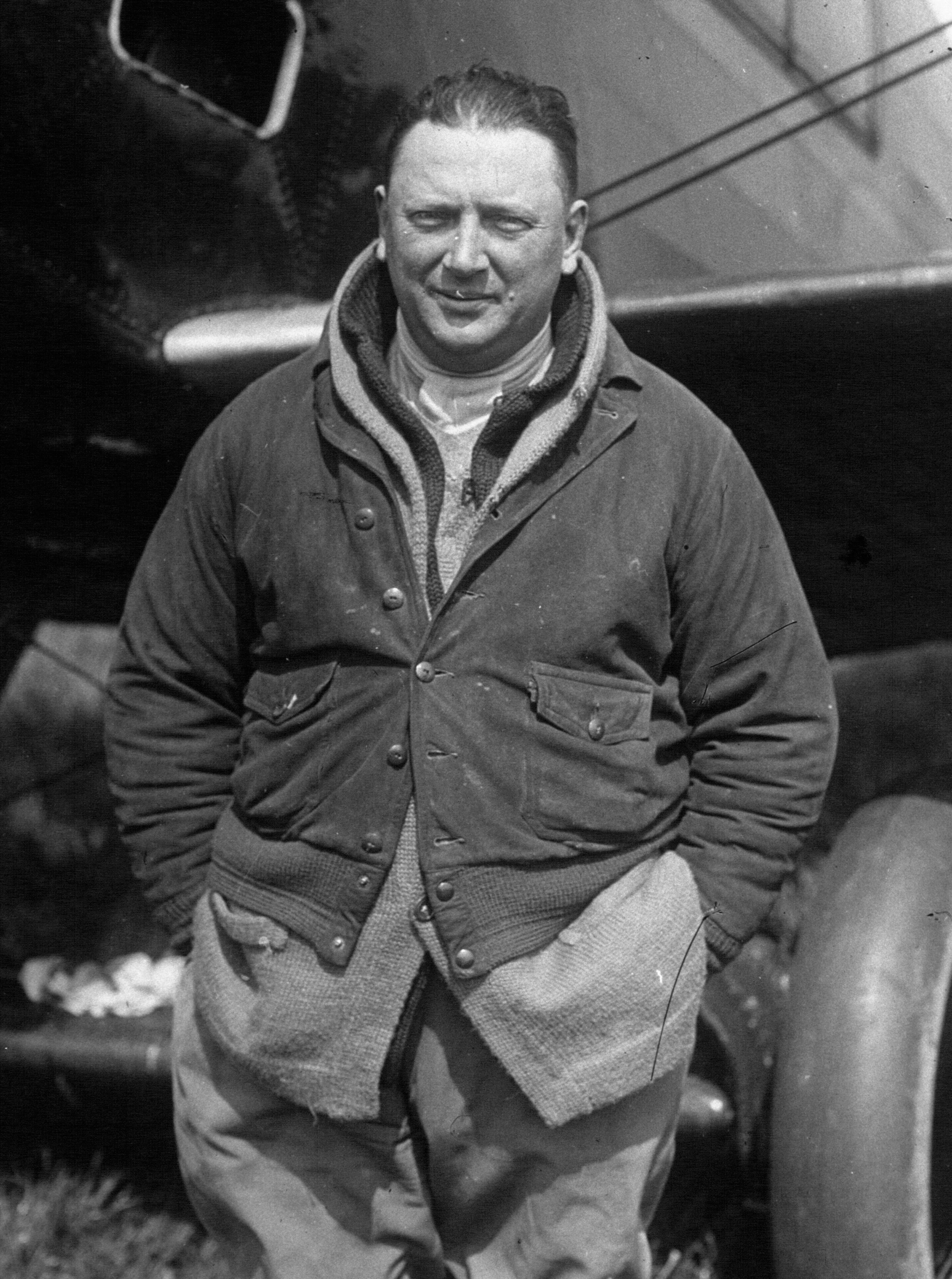 French aviator Georges Pelletier-Doisy (1892-1953).